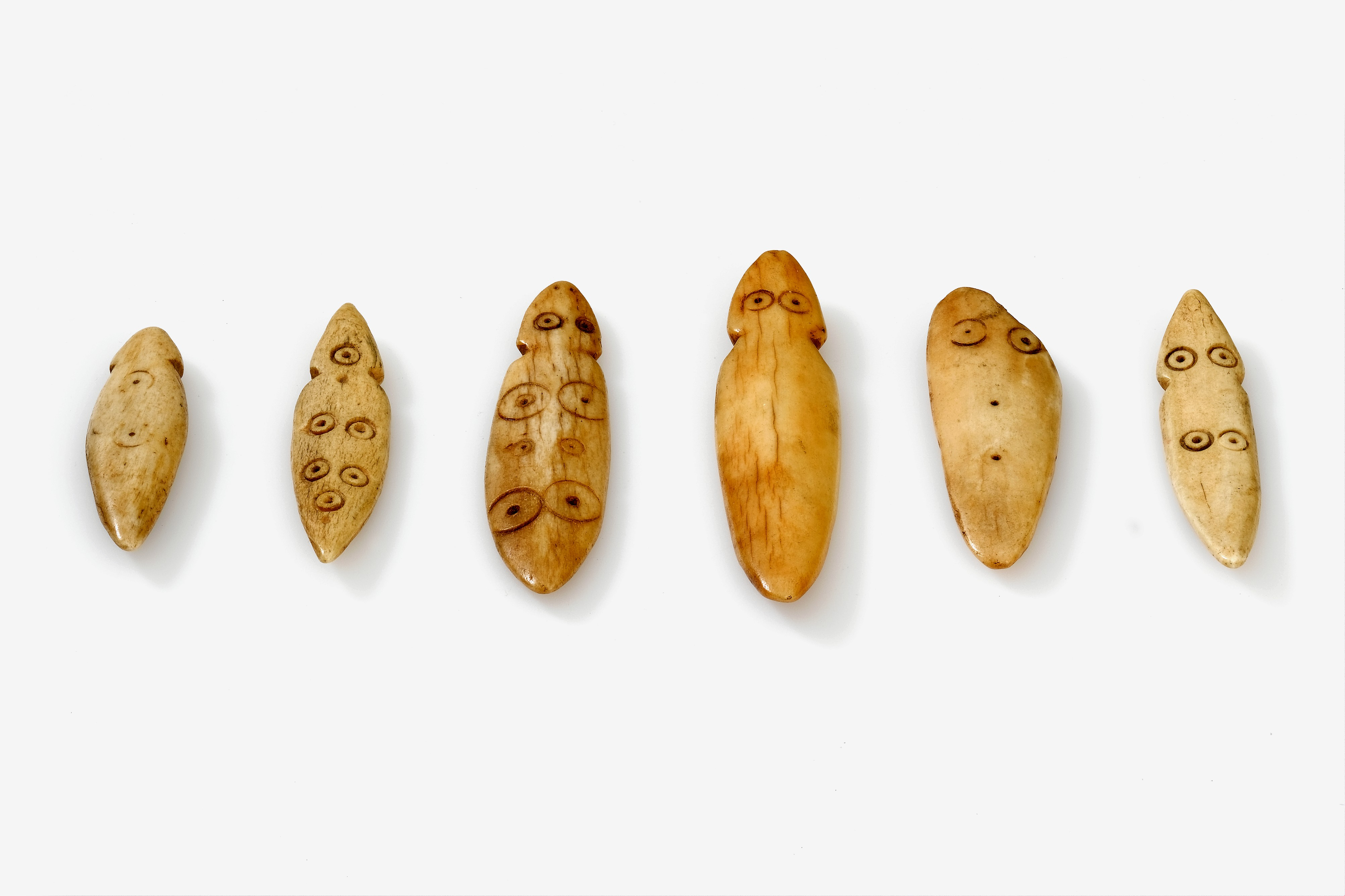 Divination diagnoses the cause of illness in many African communities. These bones would be cast onto a mat and the diviner would interpret the pattern. The bones are carved into the shape of fish. They are decorated with a ring and dot designs widely used in Zambia. maker: Mashukalumbwe Place made: Zambia Wellcome Images Keywords: divination sets